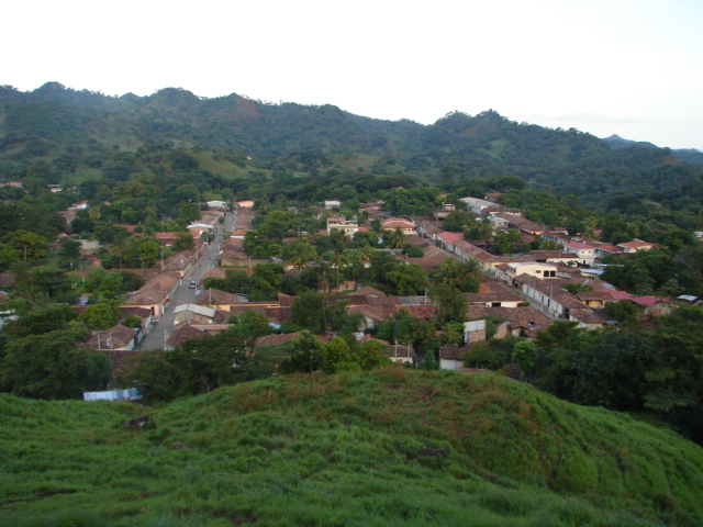 Town Center of Nuva Esparta